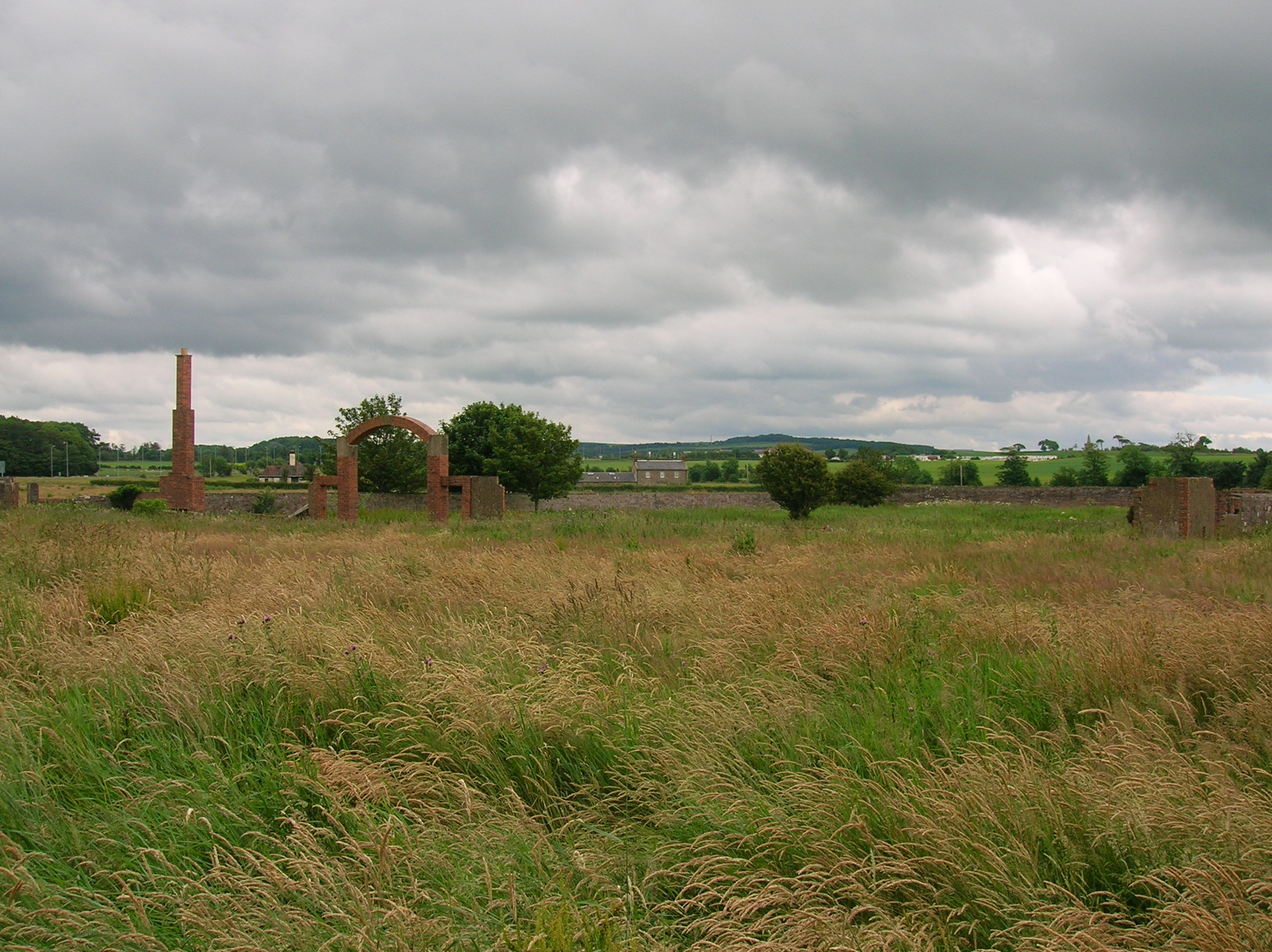 The old walled garden at Fairfield House (demolished), Monkton, Ayrshire, Scotland.